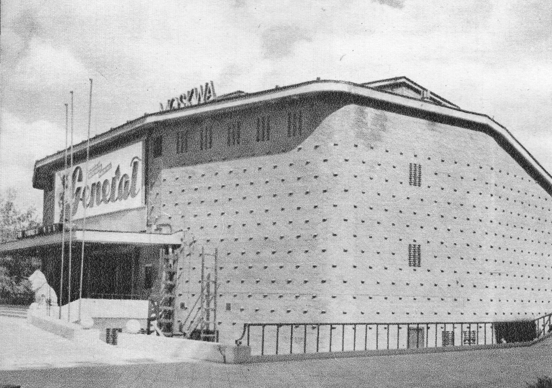 Moskwa Cinema in Warsaw